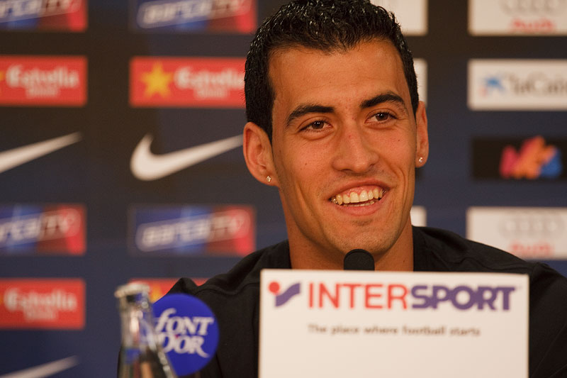 Sergio Busquets (press)